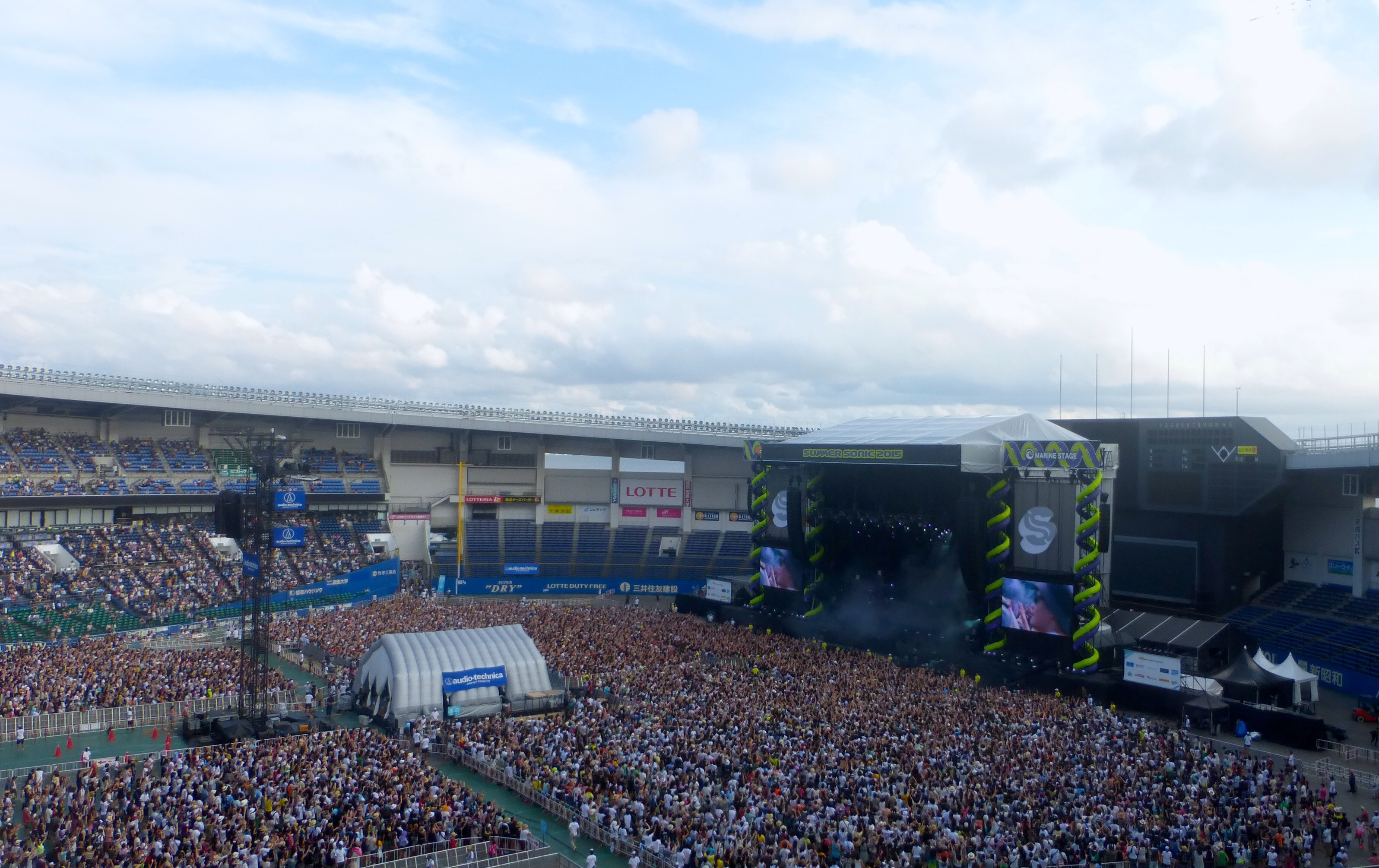 Summer Sonic Festival Marine Stage (with Zedd performing)